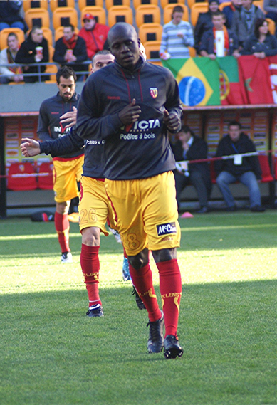 Kanga Akalé (RC Lens), before Lens-Toulouse.